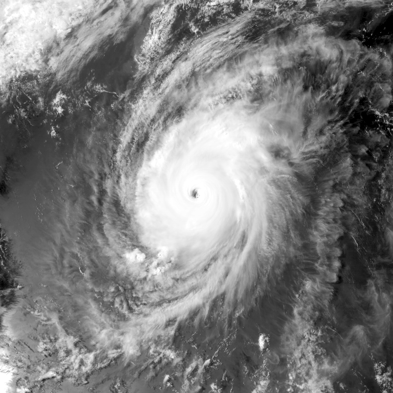 Typhoon Noul at peak intensity, just before landfall over the Philippines on May 10, 2015.